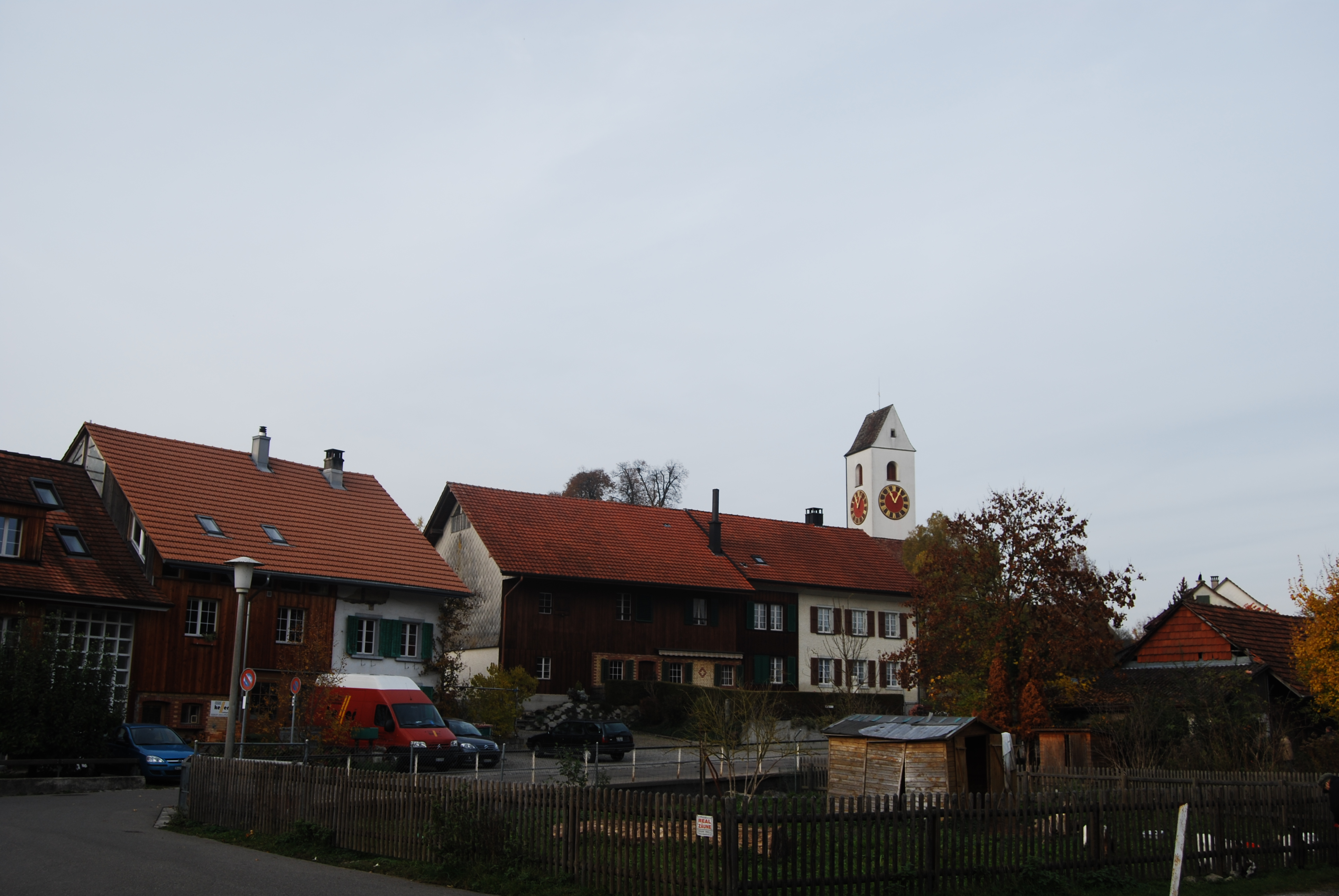 Church of Hettlingen, canton of Zürich, SwitzerlandEsperanto: Preĝejo de Hettlingen, Kantono Zuriko, Svislando